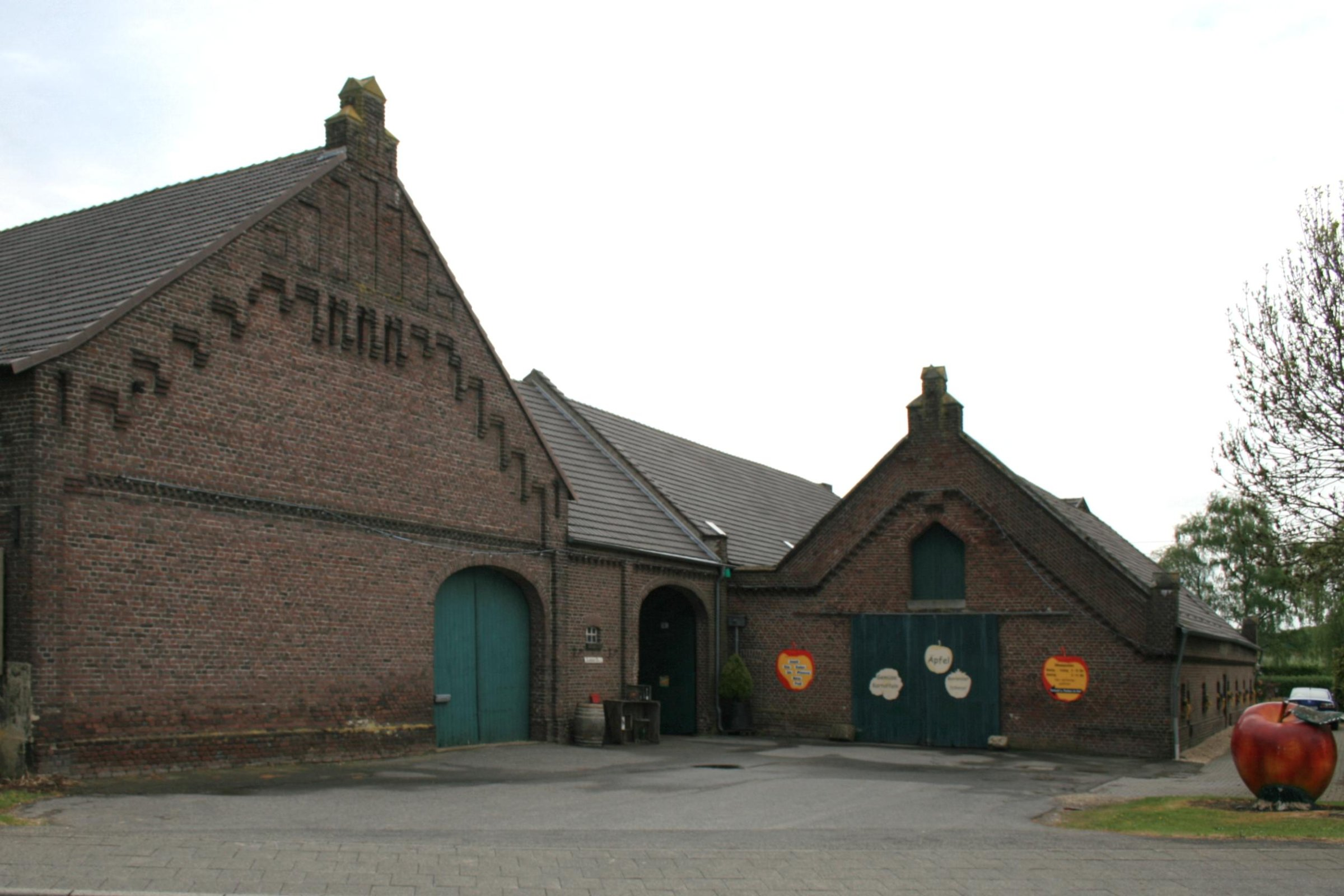 Cultural heritage monument No. R 083 in Mönchengladbach